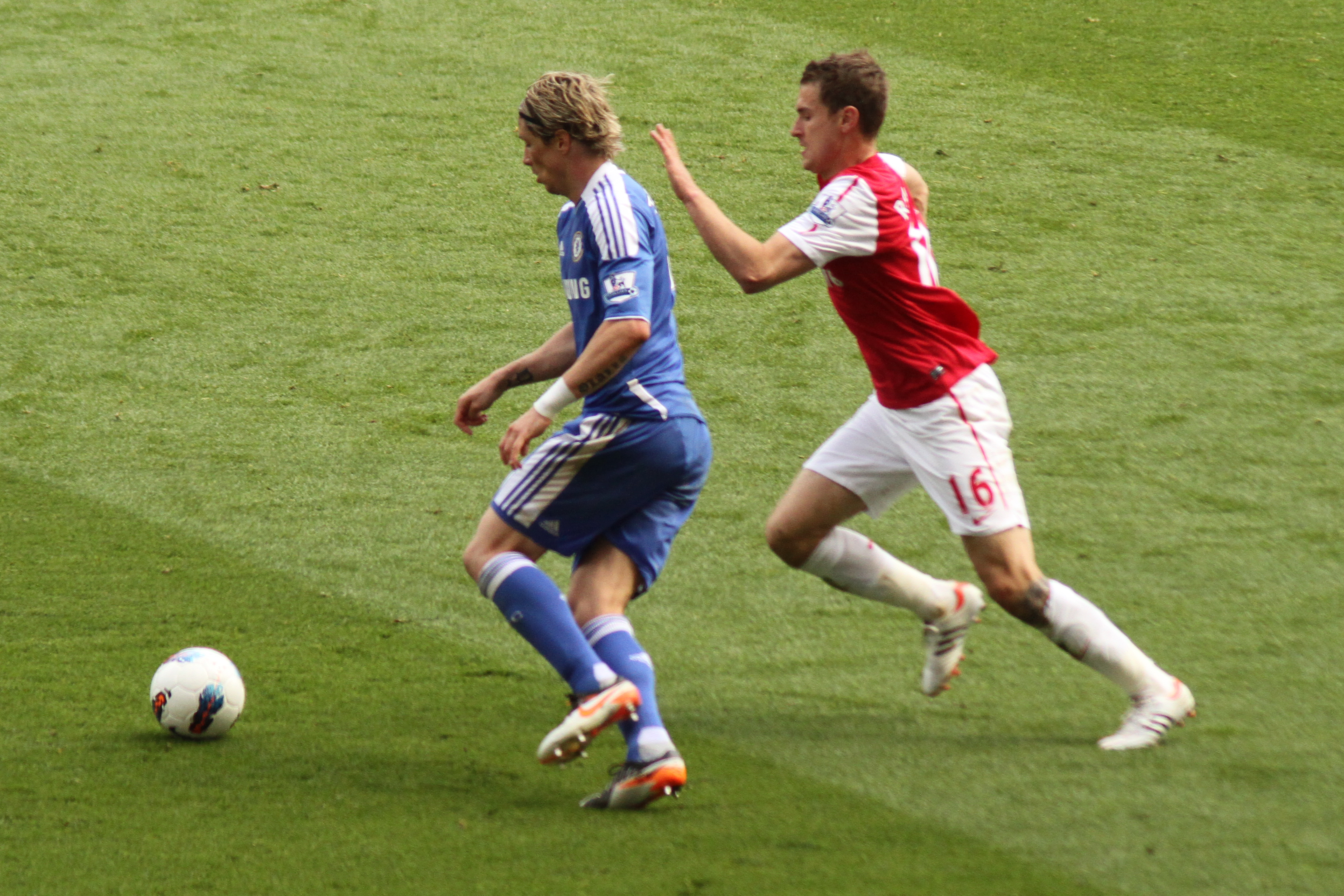 Aaron Ramsey & Fernando Torres 2